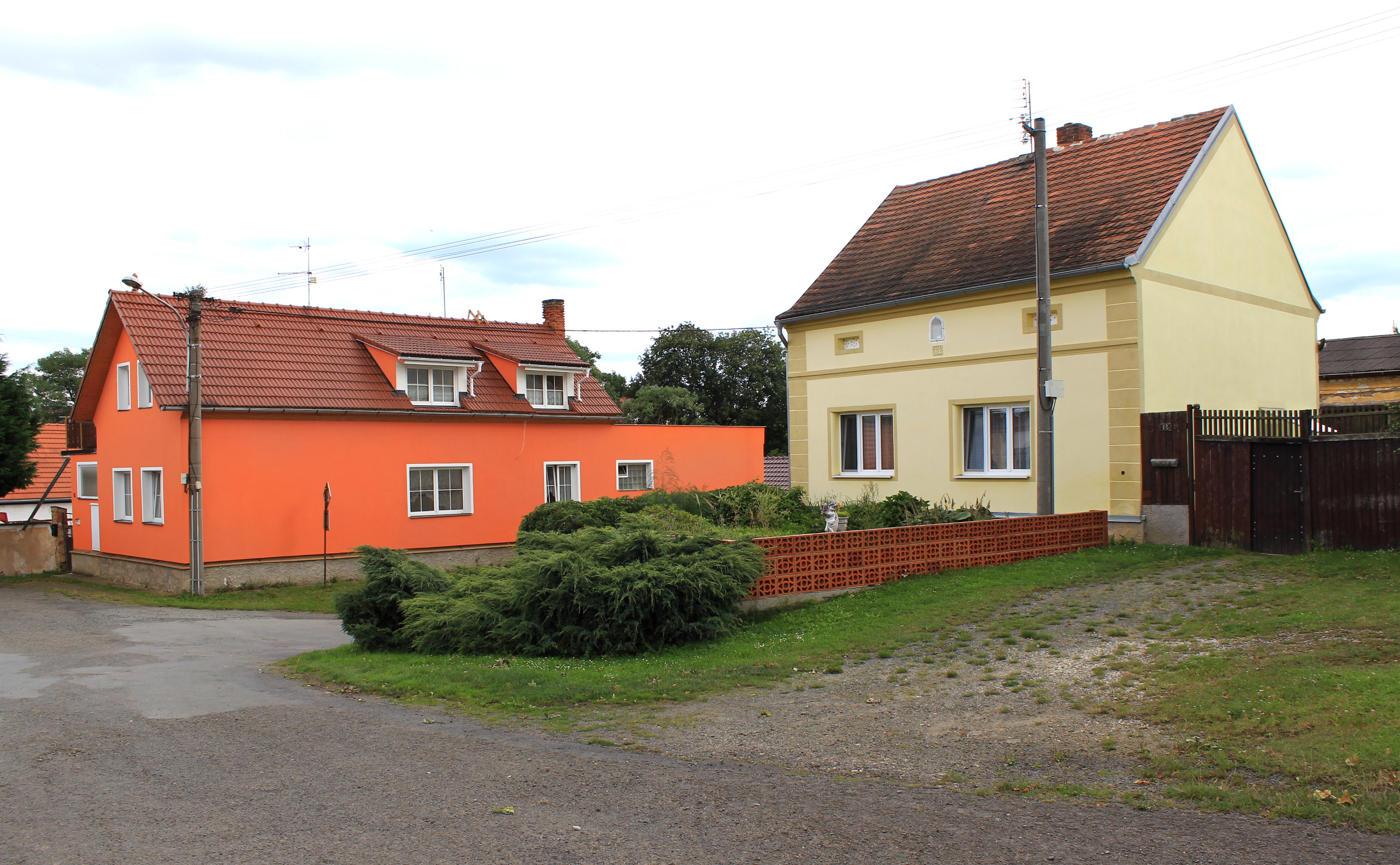 Common in Střelice, Czech Republic.